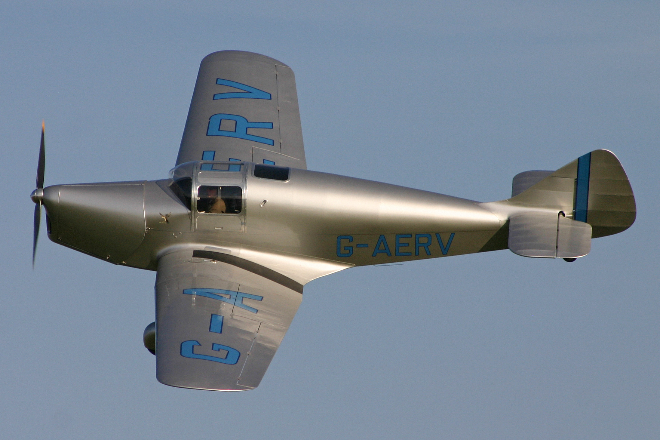 c/n 307. Displaying at Old Warden. 02-10-2011